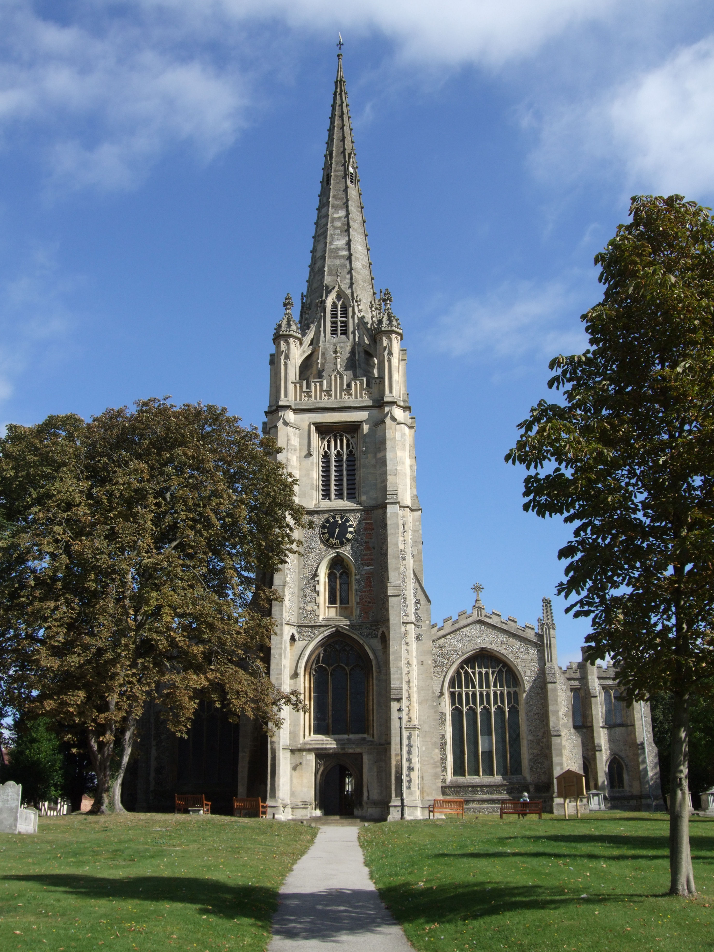 St Mary the Virgin parish church, Saffron Waldon, Essex, seen from the southwest